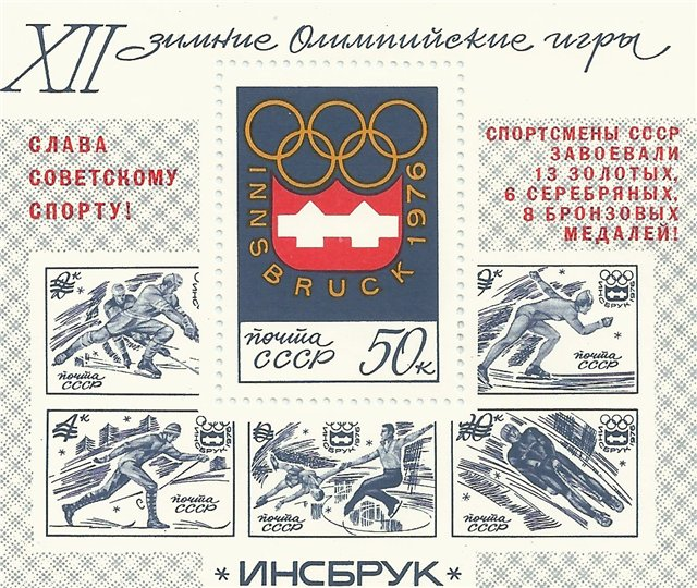 Awards of the Soviet athletes at the IX Winter Olympics (Innsbruck, Austria). Post of USSR 1964.